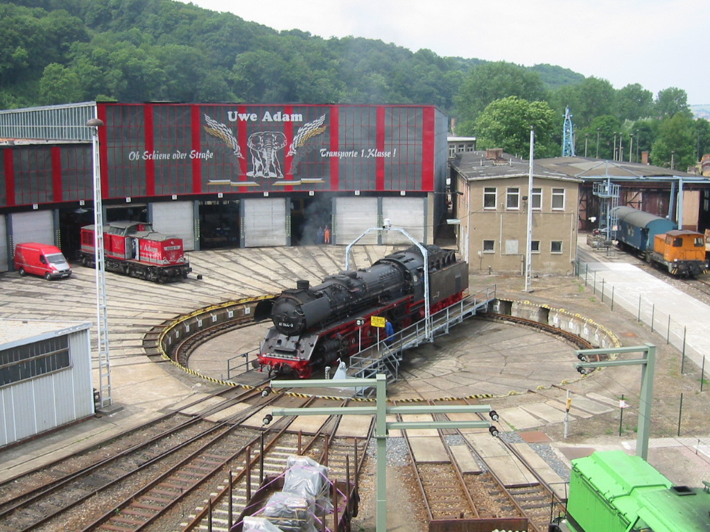 Roundhouse with turntable in Eisenach, Thuringia, Germany